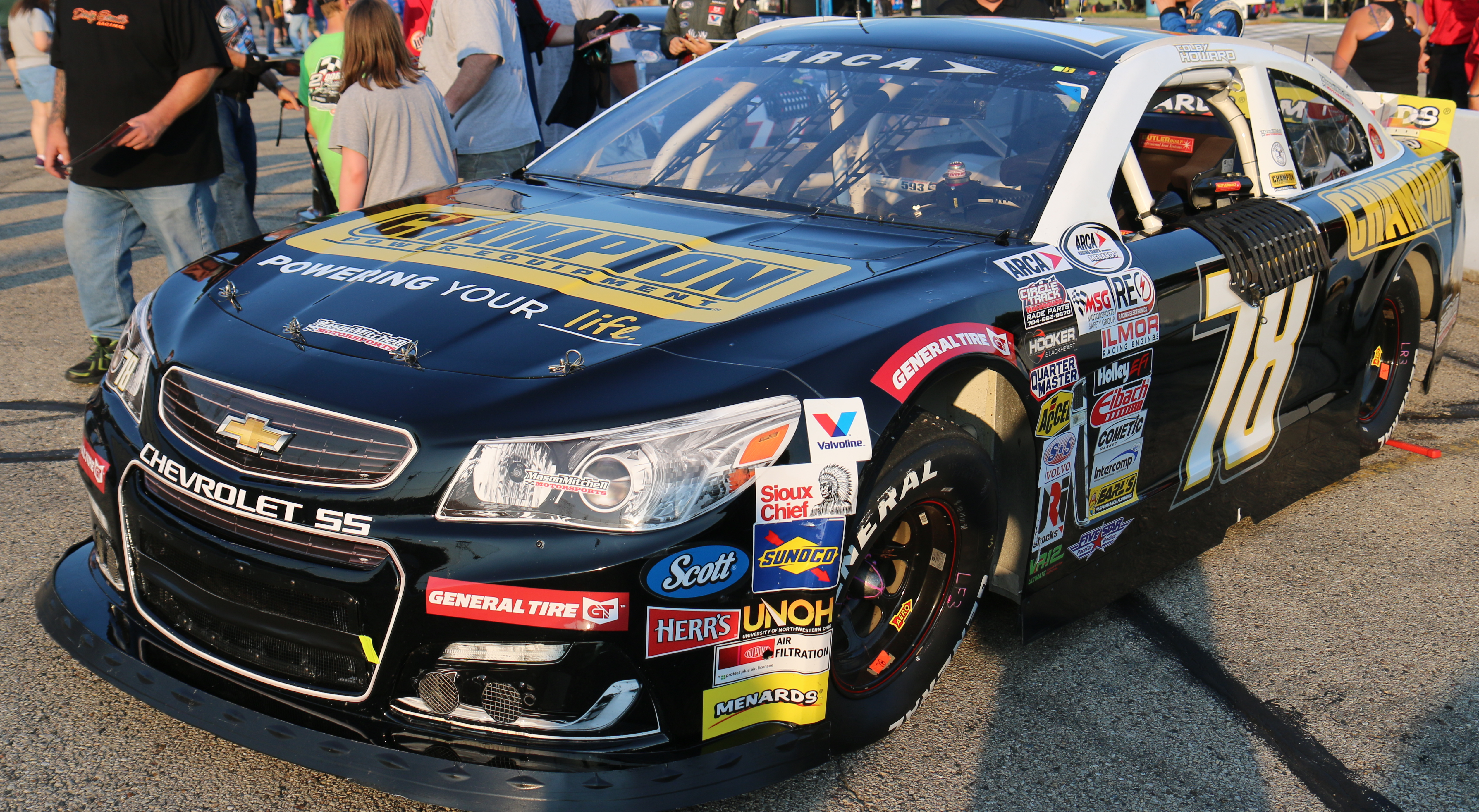 The #78 car of Colby Howard on display at the 2018 ARCA race at Madison International Speedway.